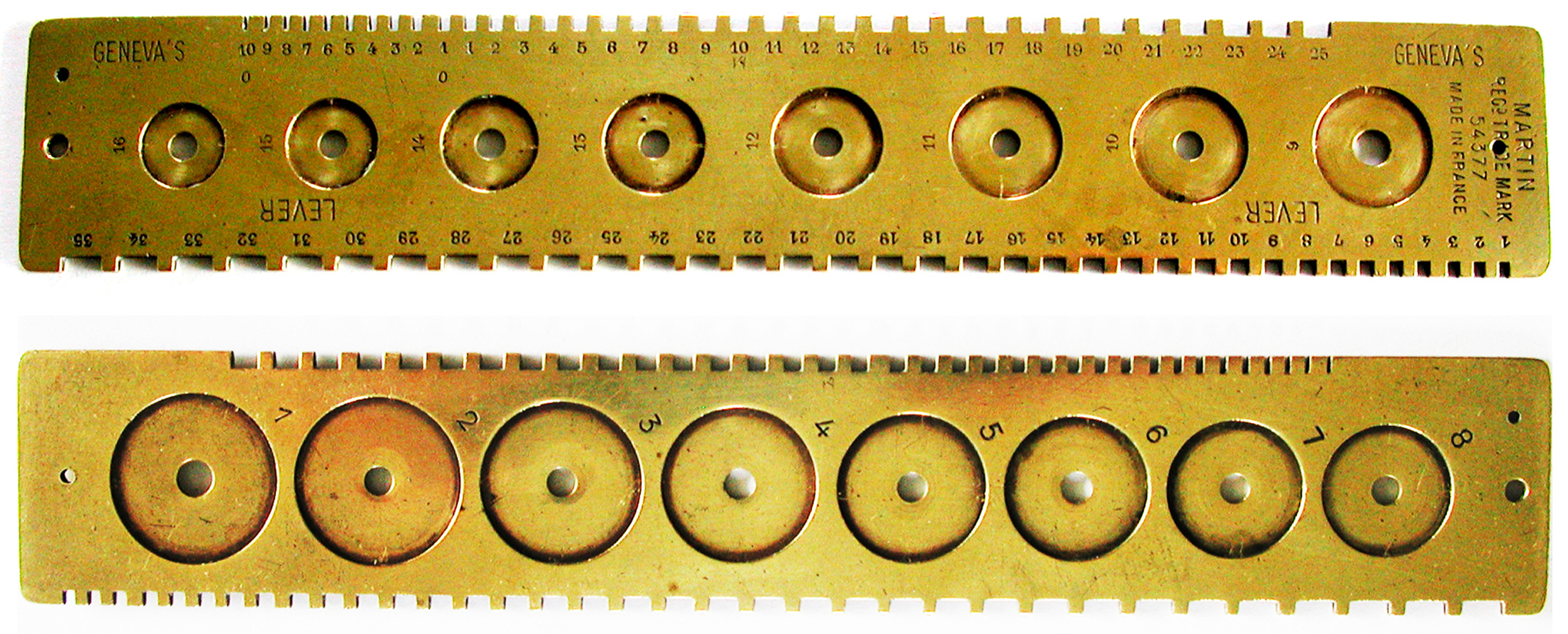 Front and back views of a watch mainspring gauge made by Martin (France)